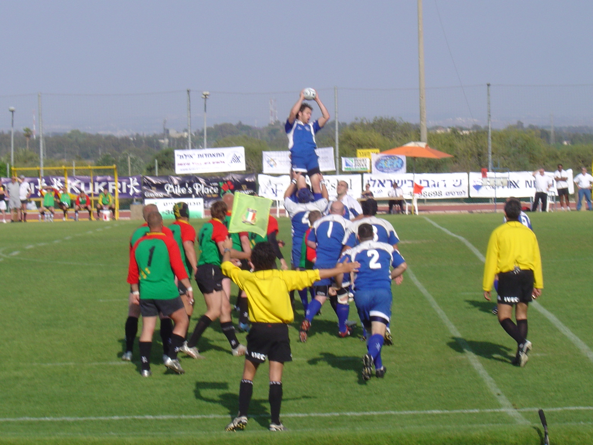 Israel Vs. Lithuania